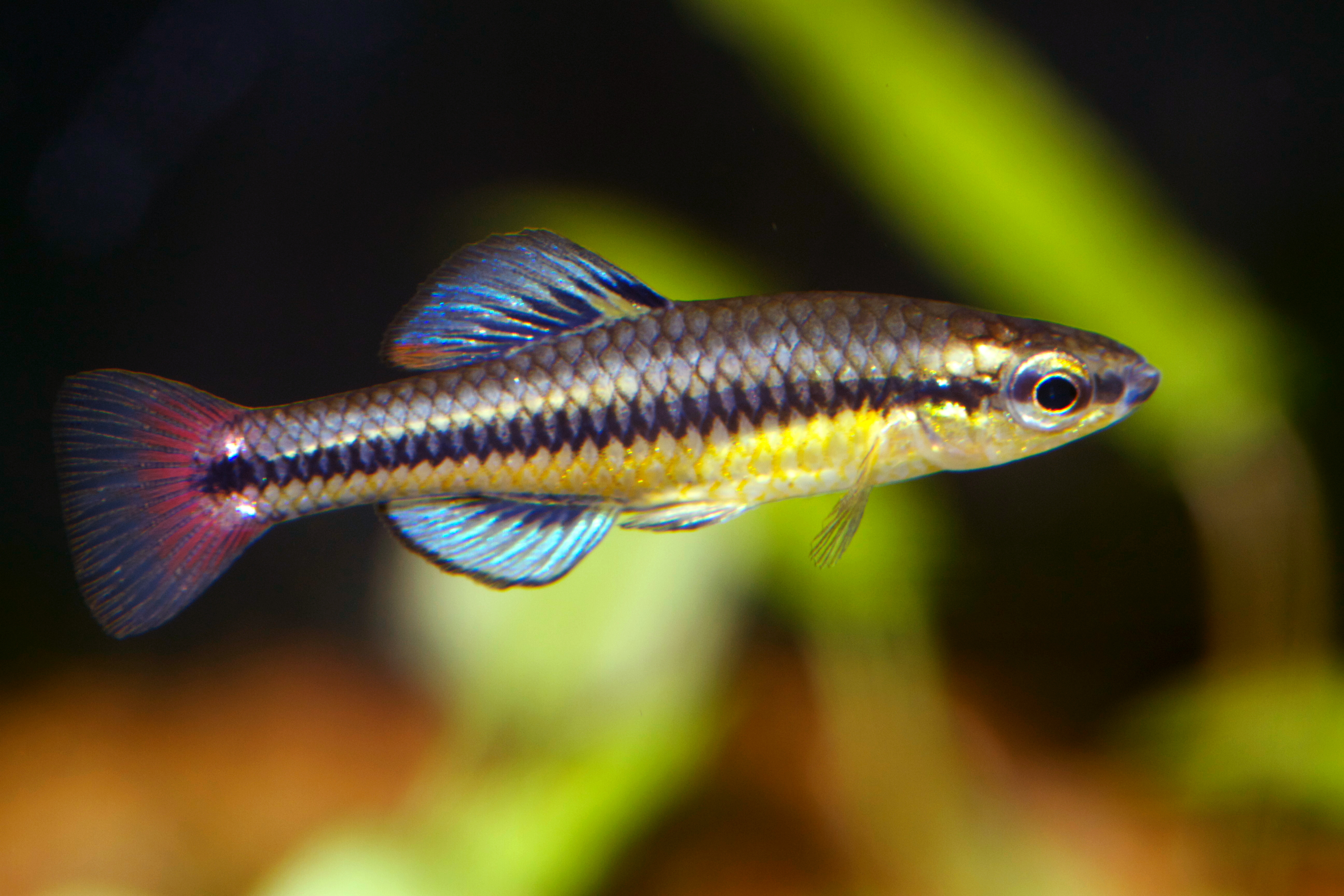 Lucania goodei, National Aquarium, Washington, DC, USA